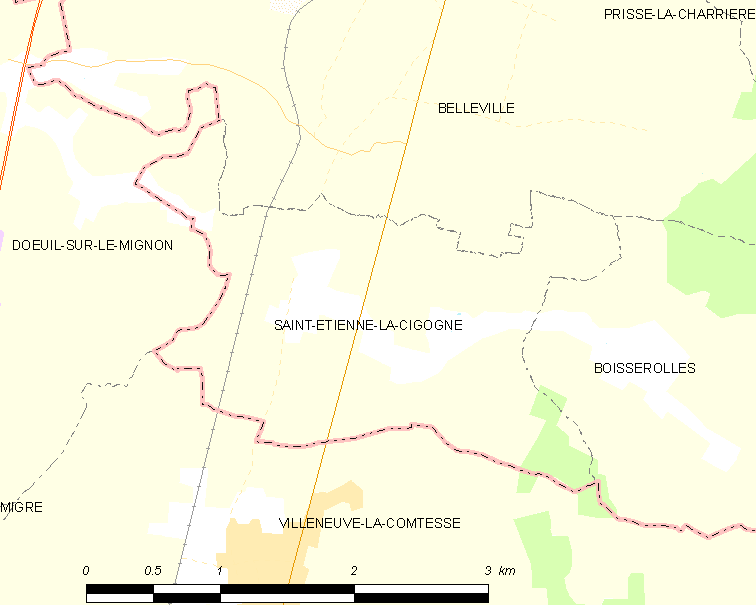 Map of French municipality Saint-Étienne-la-Cigogne